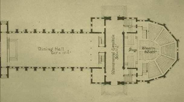 Architectural Plan of Memorial Hall (Harvard University)